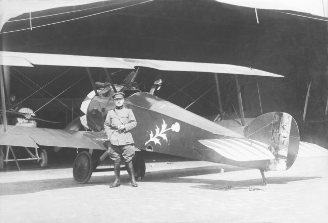 Jan Olieslagers in front of a 9 Squadron Sopwith Camel of the Aviation Militaire Belge